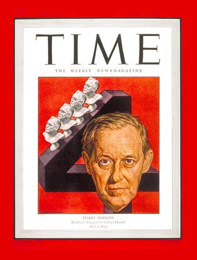 Time magazine, Vol. 35 No. 4, Jan. 22, 1945The cover shows Harry Hopkins